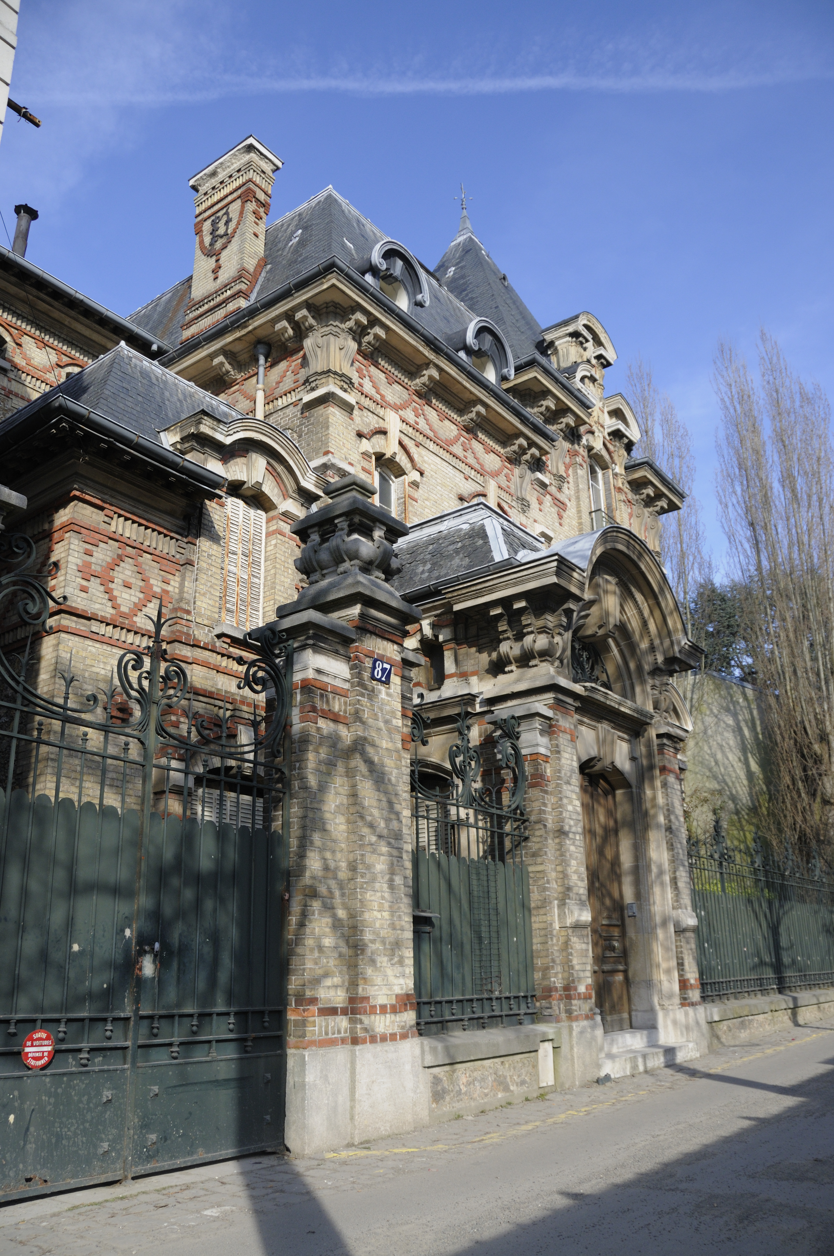 maison versailles "feu follet"